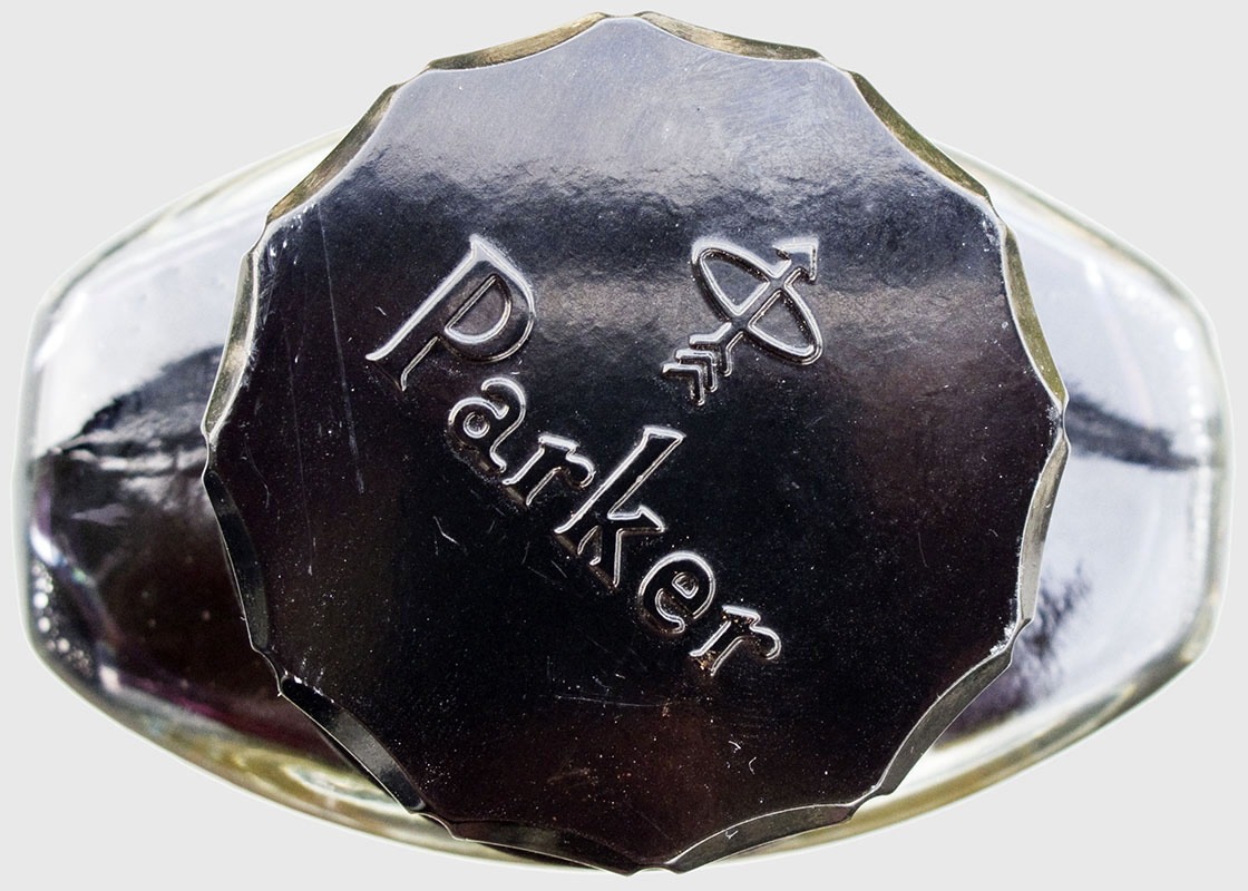 Top view of Quink Bottle with molded Parker lid, showing unusual semi-elliptical shape of the Quink bottle.